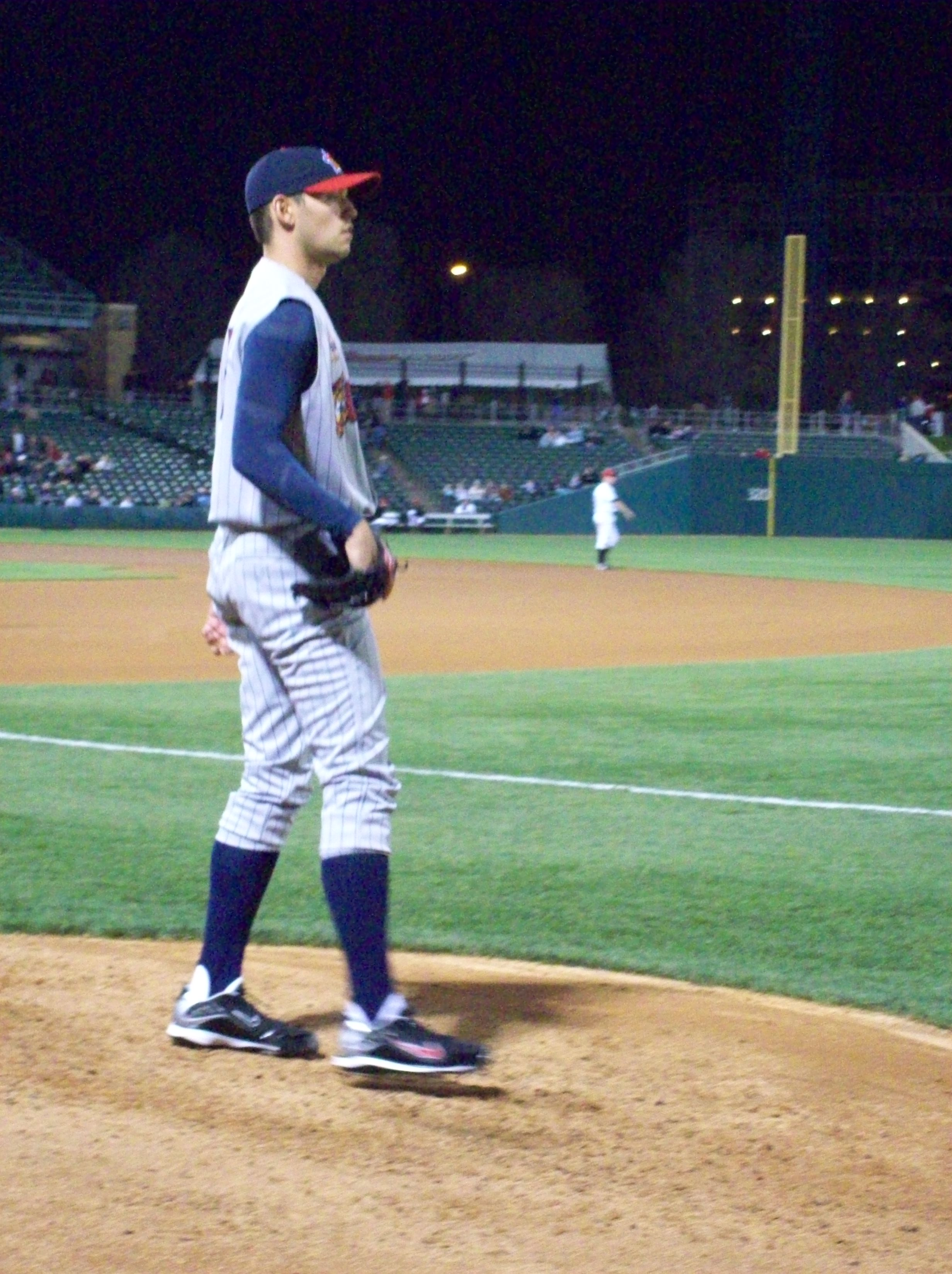 Clay Rapada of the Toledo Mud Hens, warming up during a game at Victory Field, Indianapolis, April 9, 2009, taken by Tim O'Brien 08:34, 26 April 2009 . . Skatefan . . 2,464×3,296 (913 KB)